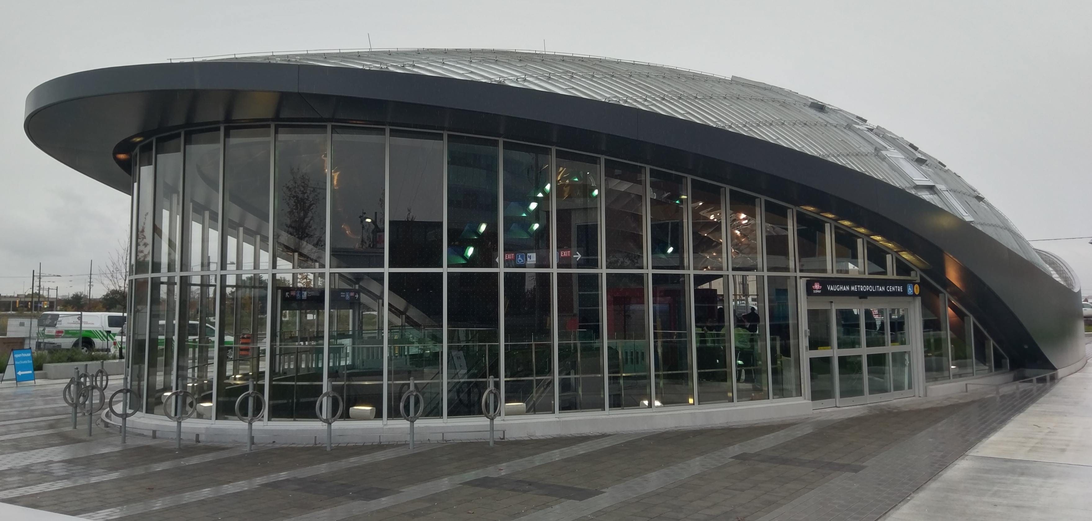 Vaughan Metropolitan Centre subway station exterior